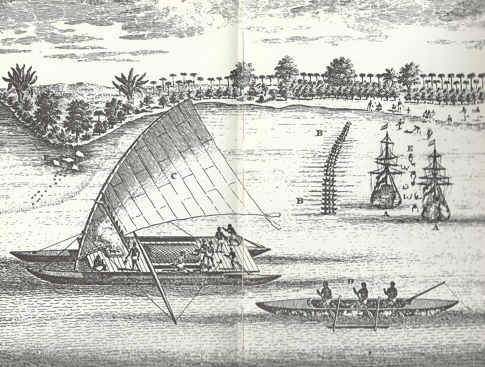 A Tongan tongiaki with bonito fishing canoe in foreground seen by Tasman, 1643. Reproduced in We, the Navigators by David Lewis, Australian National University Press, 1972